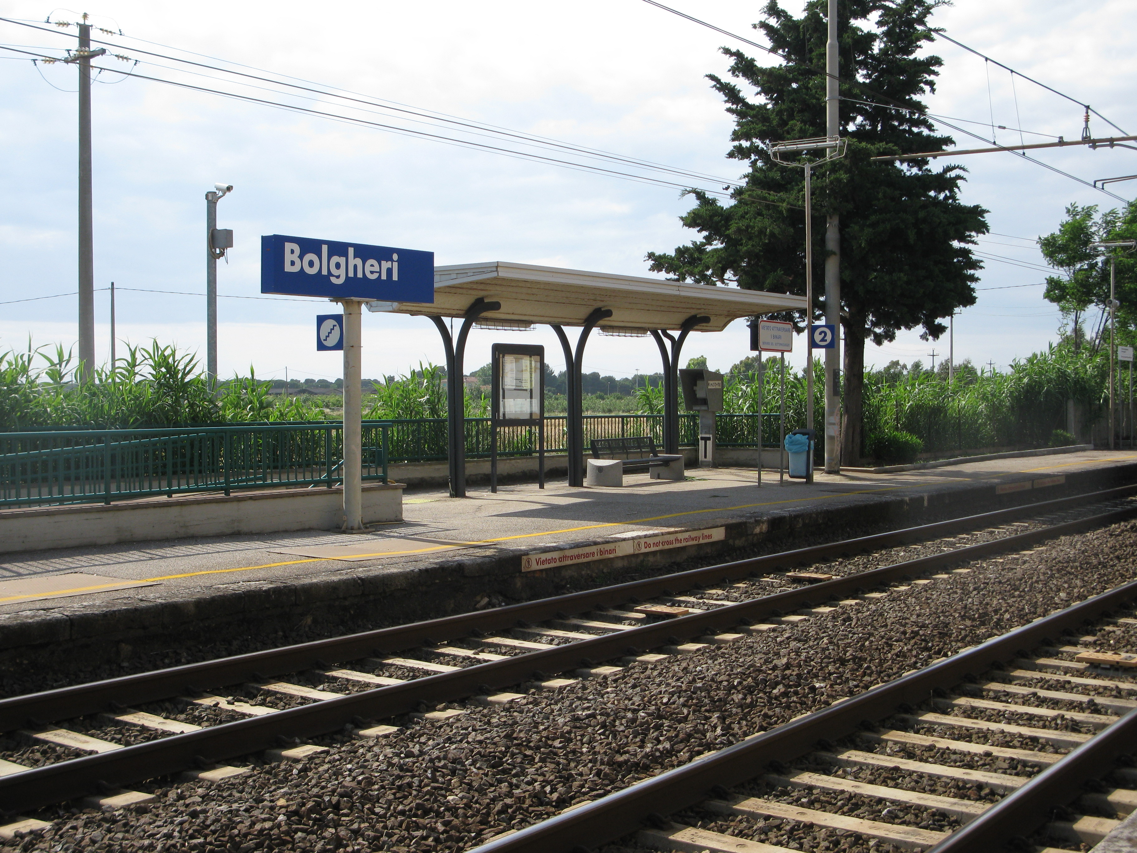 Bolgheri train station, station-roof on platform 2